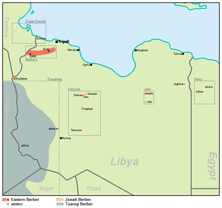 Map of Berber-speaking areas in Libya, derived from File:Eastern Berber.PNG (own made map)